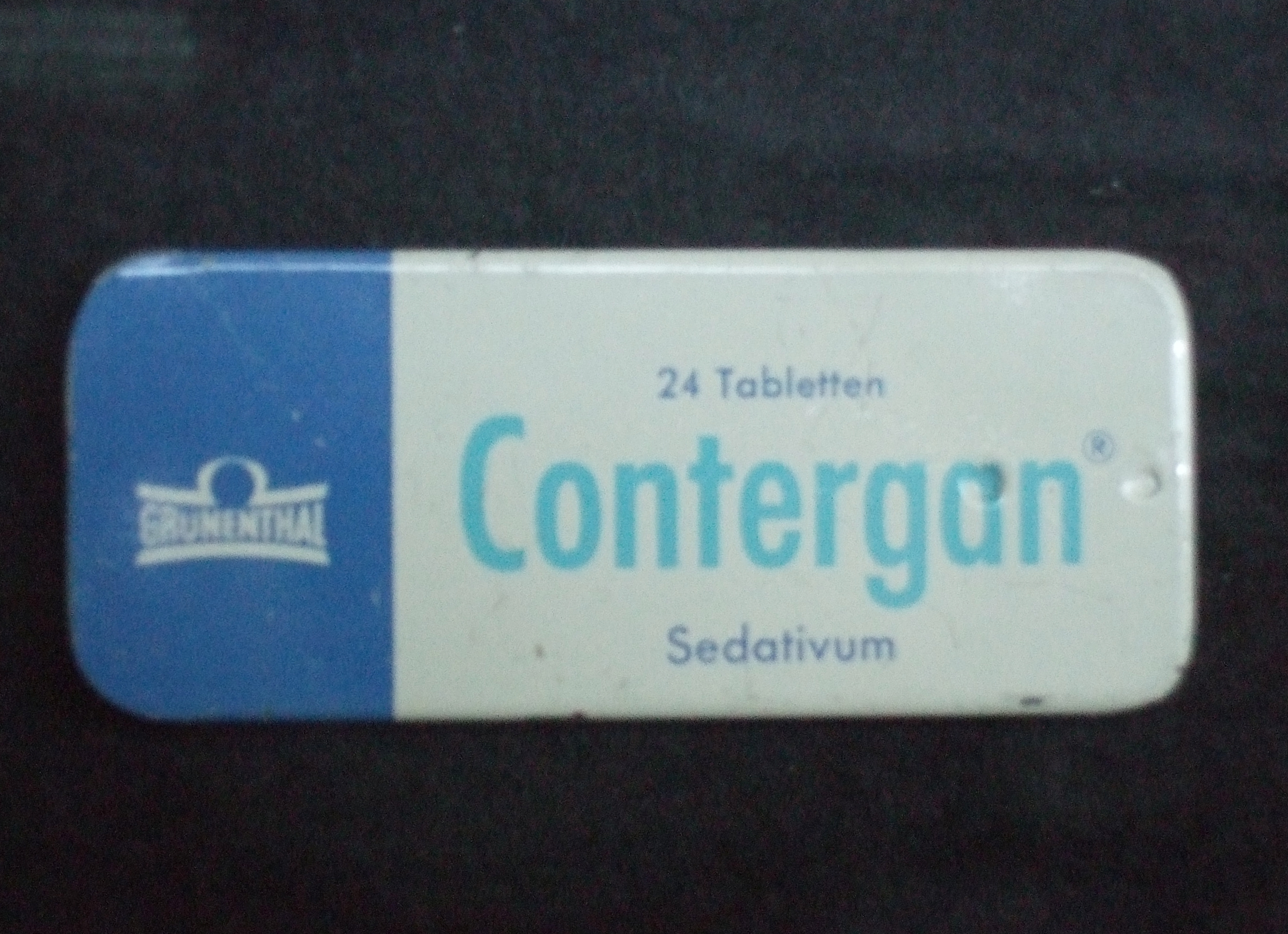 Contergan package